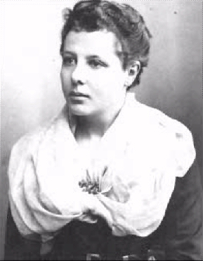 Photo of the social reformer Annie Besant (1847-1933) during the 1880s